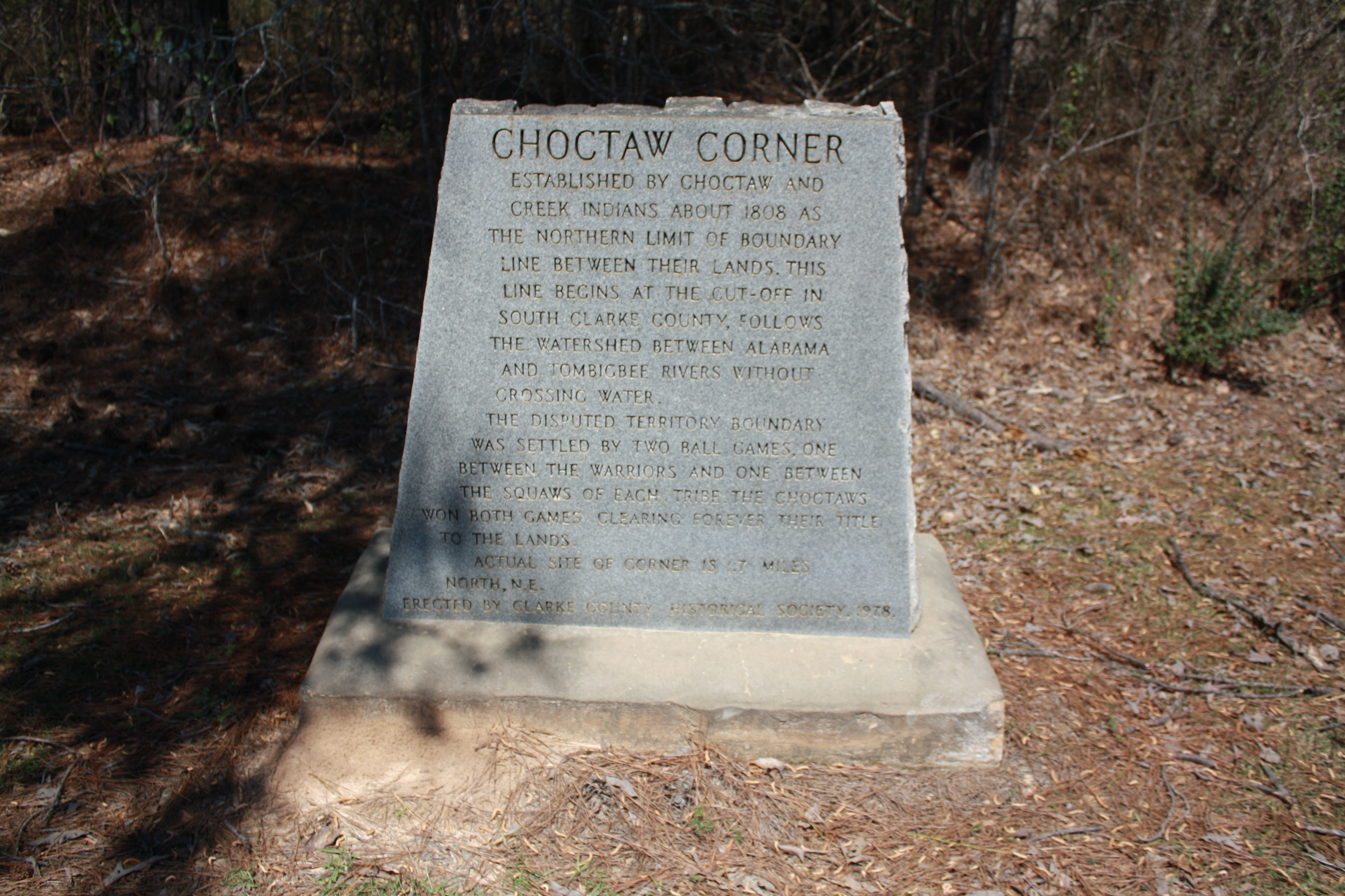 Historical marker detailing the Choctaw Corner near Thomasville, Clarke County, Alabama.